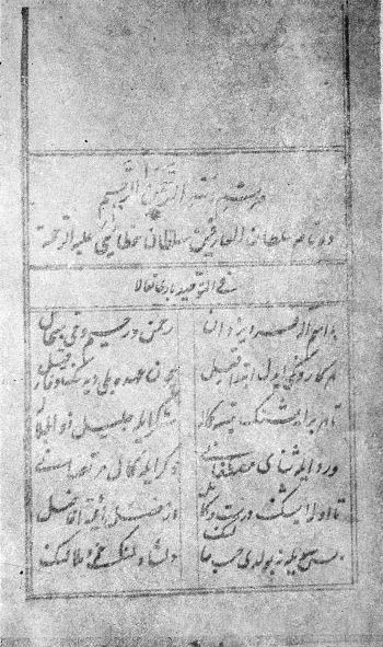 Dehname of Shah I Ismayil. Title list of the manuscript. Institue of the Manuscripts of National Academy of Science of Azerbaijan (Baku).